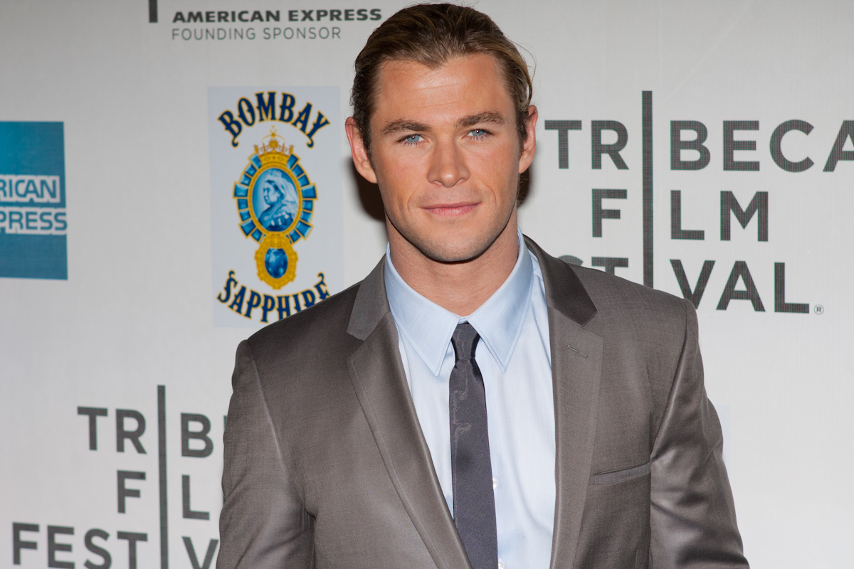 Chris Hemsworth at Avengers NYC Premiere during Tribeca Film Festival 2012